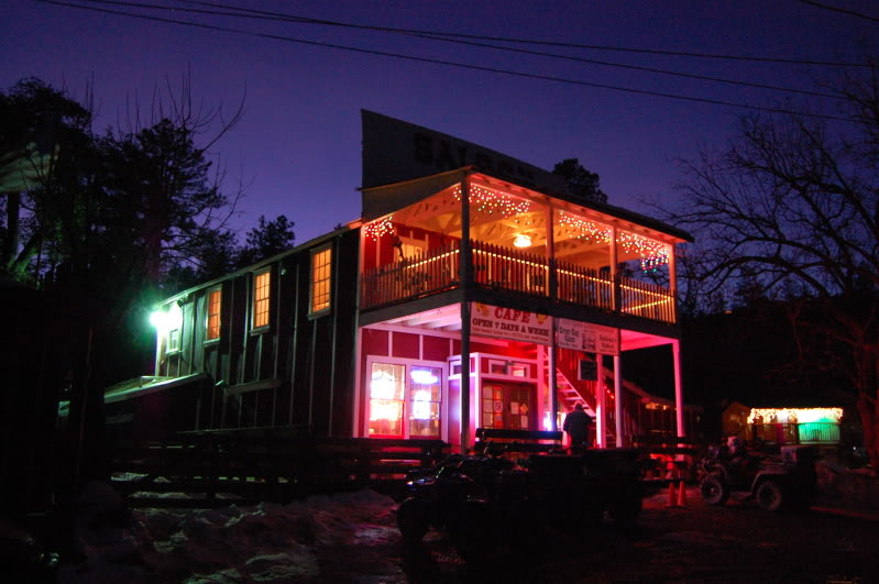 The Crown King Saloon photographed at dusk, December 2011.